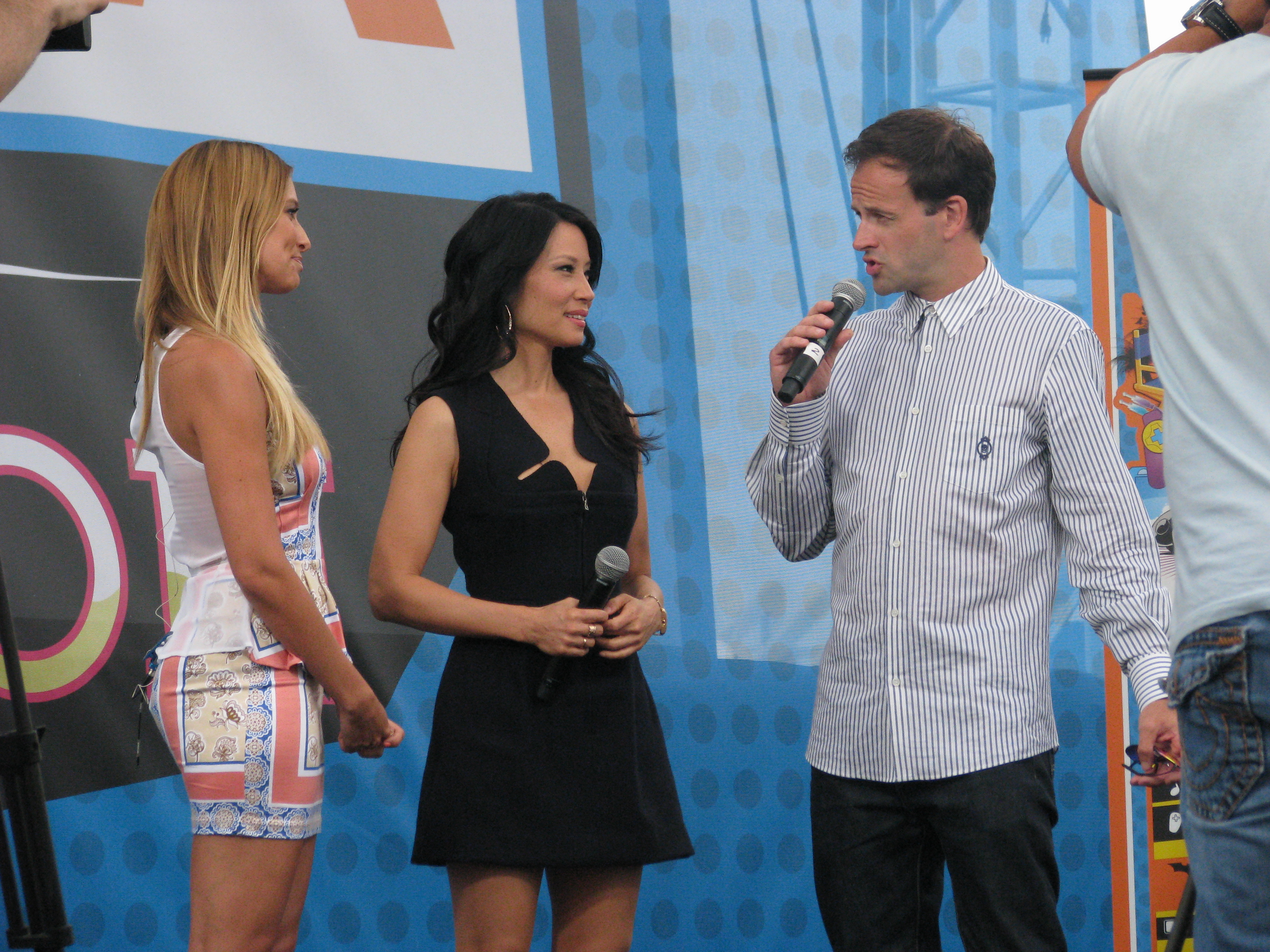 Lucy Liu and Jonny Lee Miller do a Q&A for the TV show Elementary at San Diego Comic Con 2012.